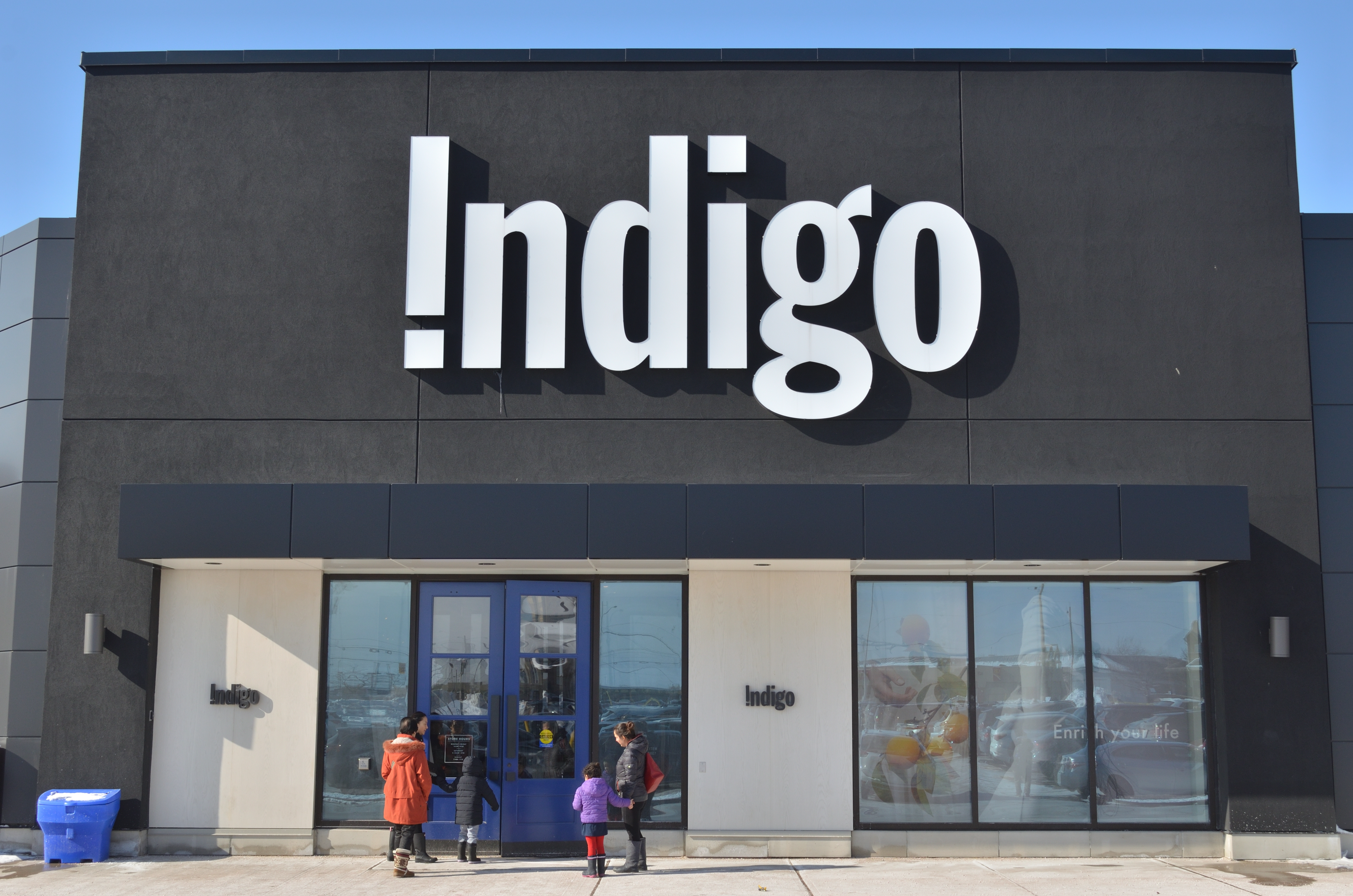 Indigo at Hillcrest Mall